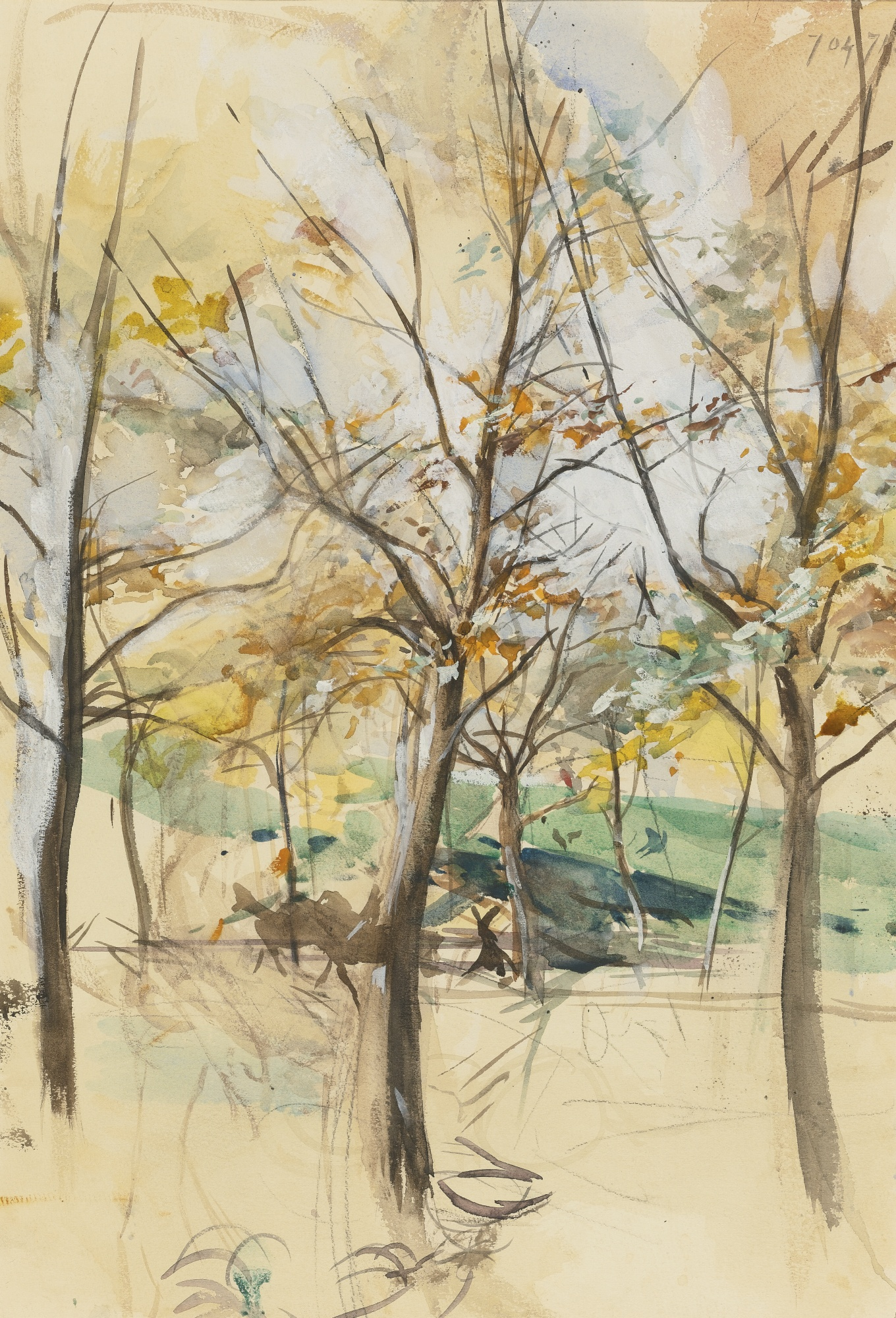 GIOVANNI BOLDINI FERRARA 1842 - PARIS 1931 TREES IN THE BOIS DE BOULOGNE recto numbered upper right: 7047 recto: watercolor heightened with gouache with traces of charcoal on card 53.9 by 37.1 cm.